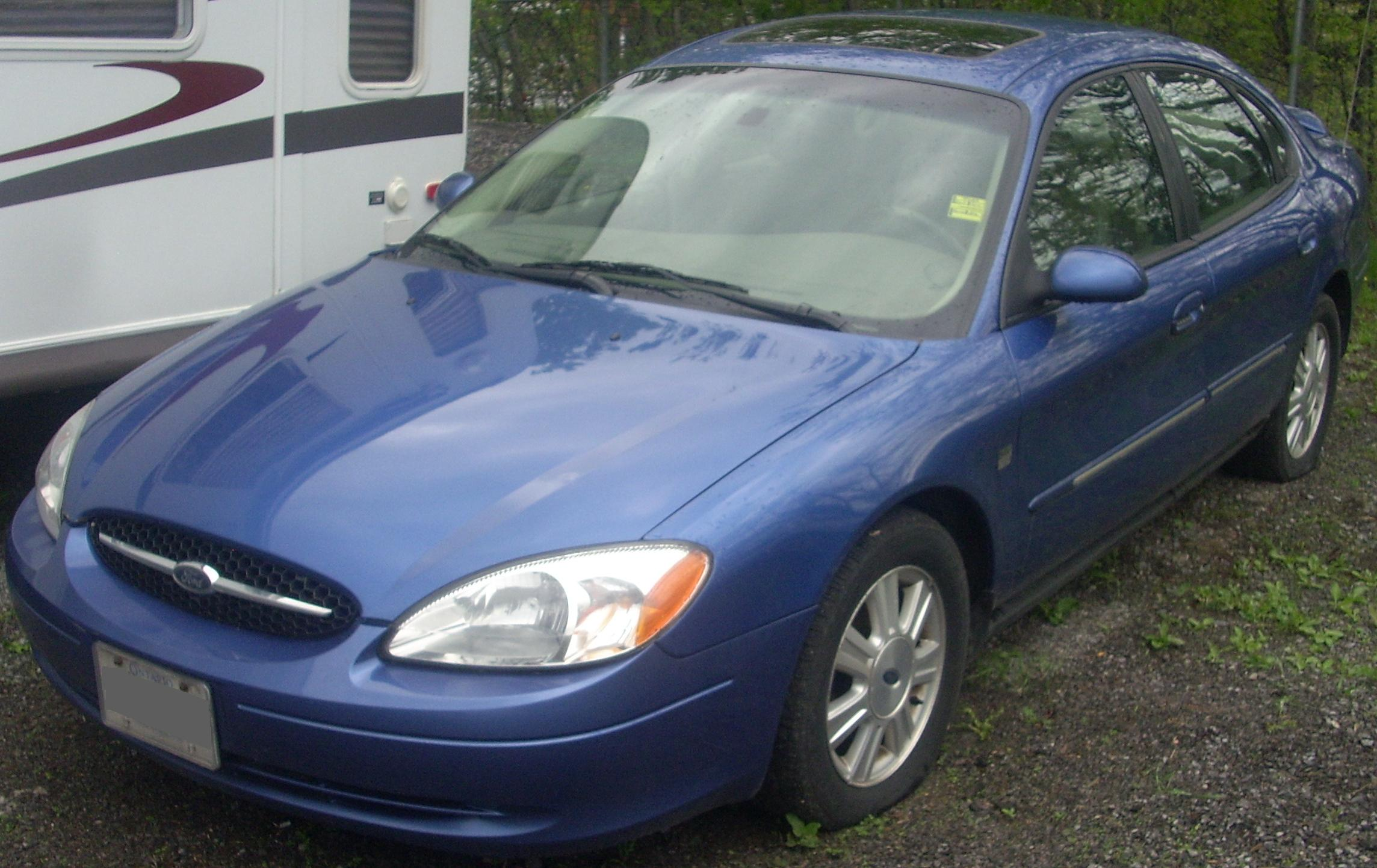 2000-2003 Ford Taurus photographed at the 2009 Sterling Ford Ottawa Auto Show.